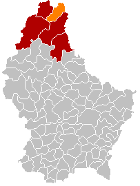 Own edit of Kanton ClervauxLocatie.png